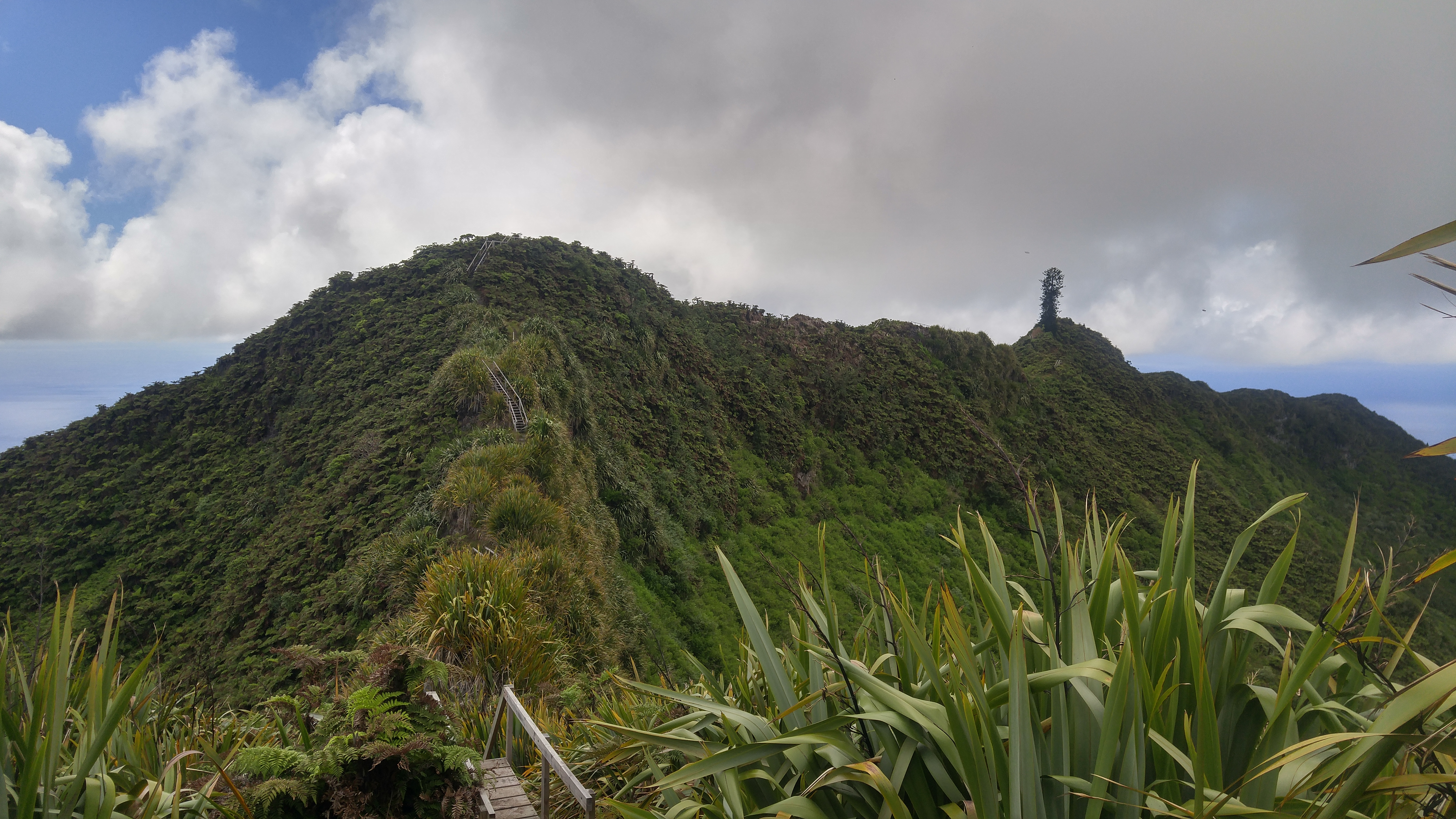 818 metre Diana's Peak with walkways leading to it, with Cuckold's Point (818m) visible to the right with a Norfolk Island Pine on it